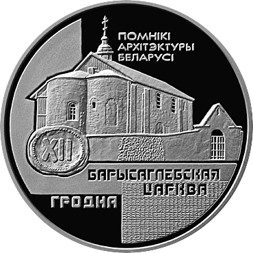 History and Culture of Belarus. Commemorative coins "Barysaglebskaya tsarkva (" Boris and Gleb Church ")